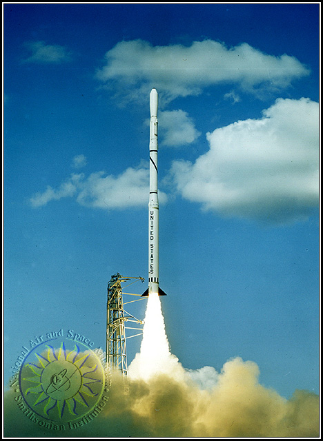 Scout D rocket launch.